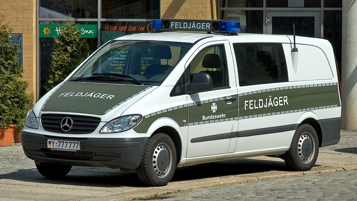 This image shows a German military police car.